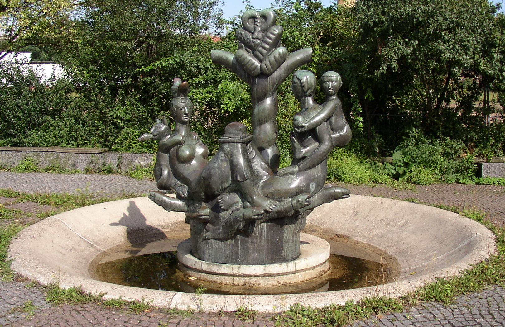 Fountain by Brigitte Haacke-Stamm in Berlin-Moabit, Germany